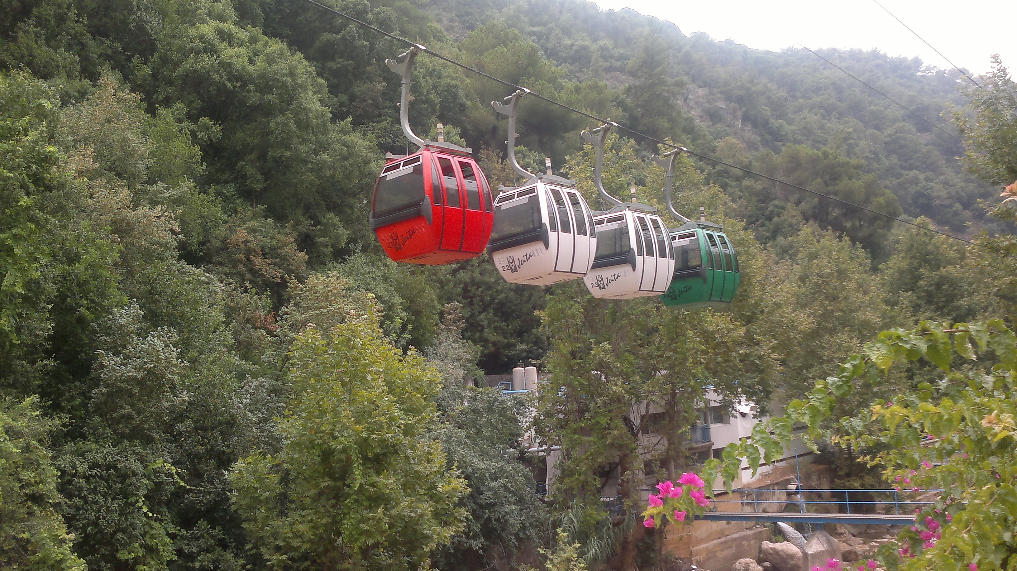 Aerial lifts at Jeita Grotto Area, Lebanon.